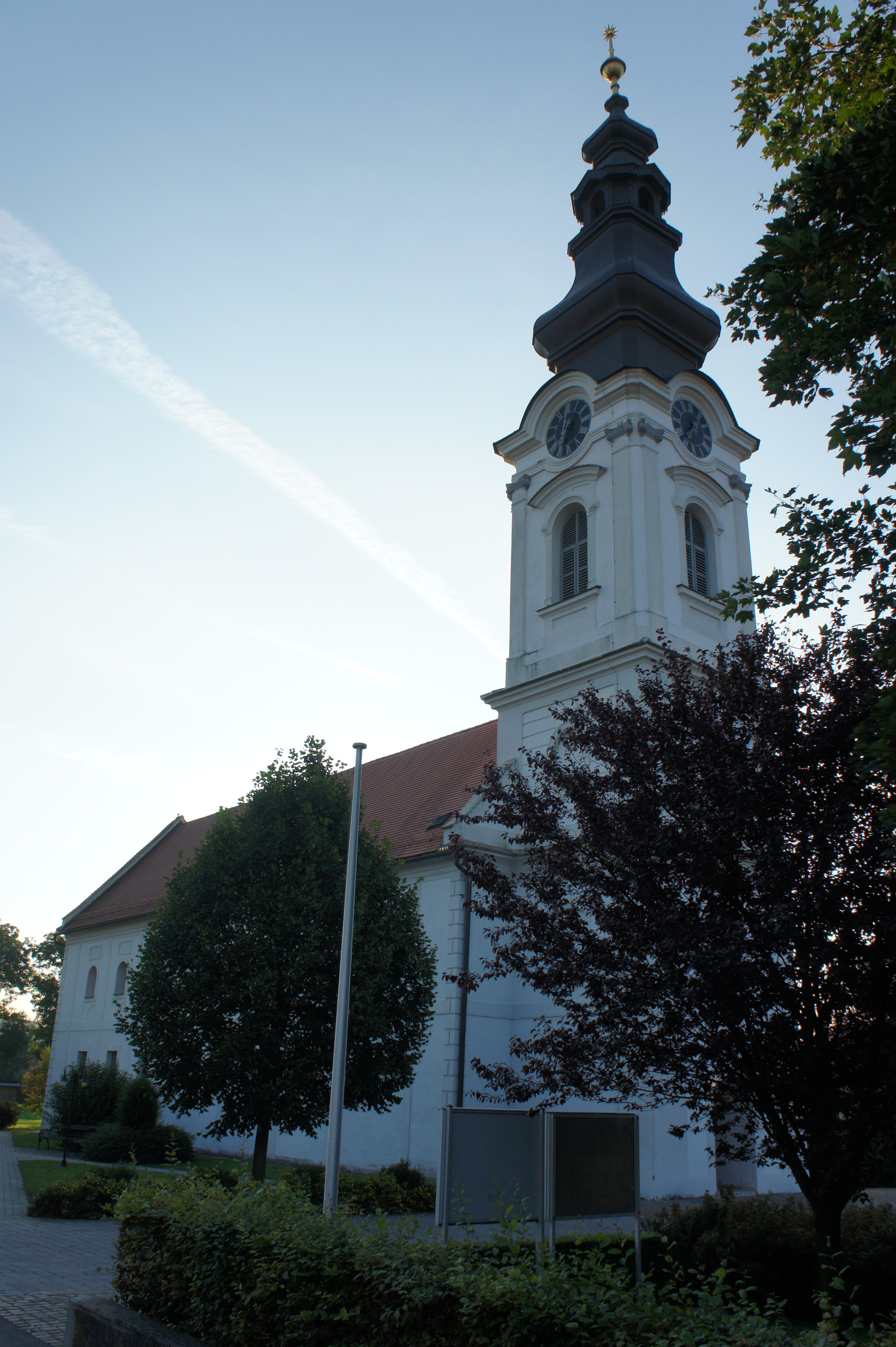 evangelic church H.C., Oberwart, Austria